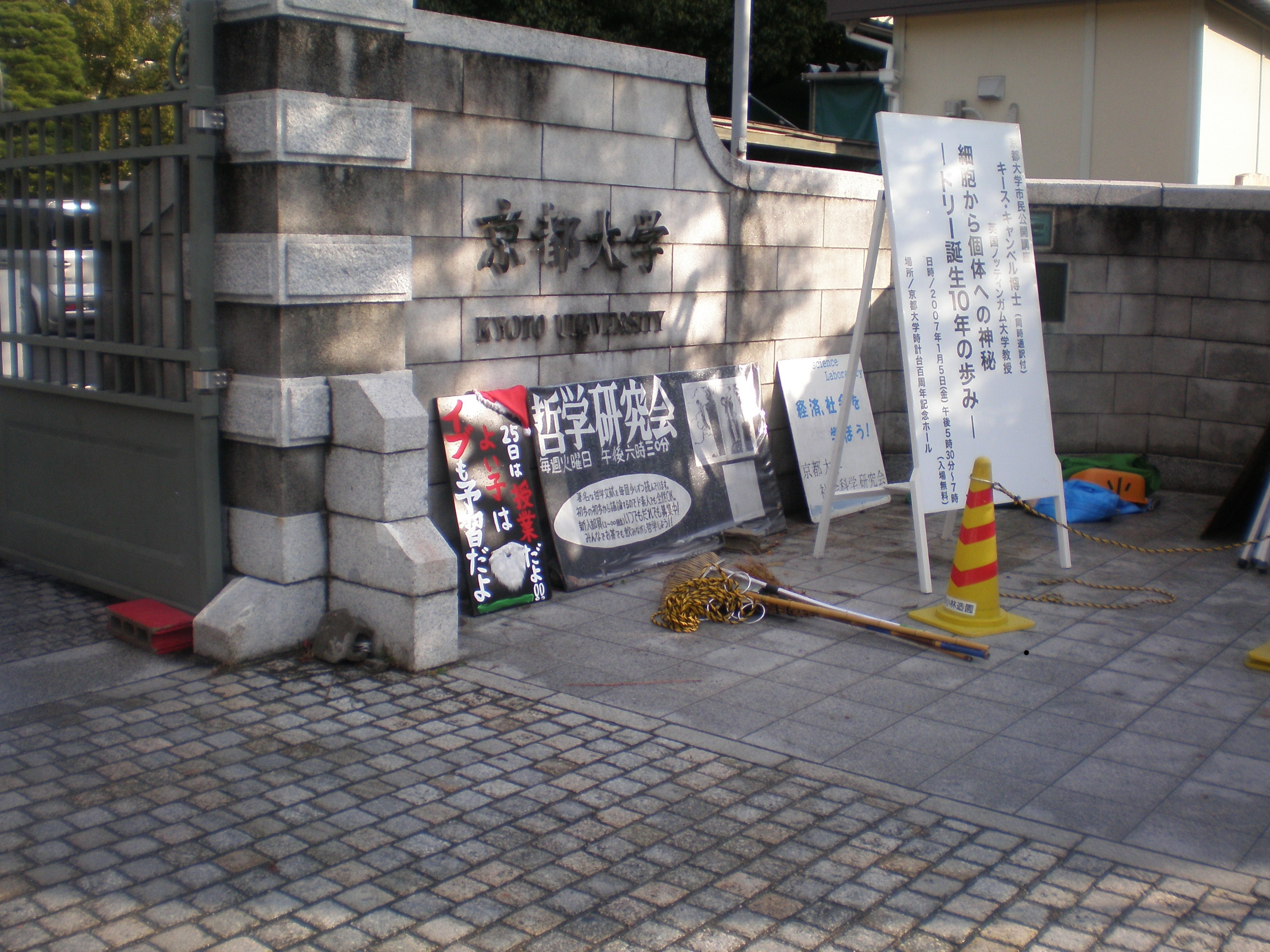 Kyoto University Main Gate